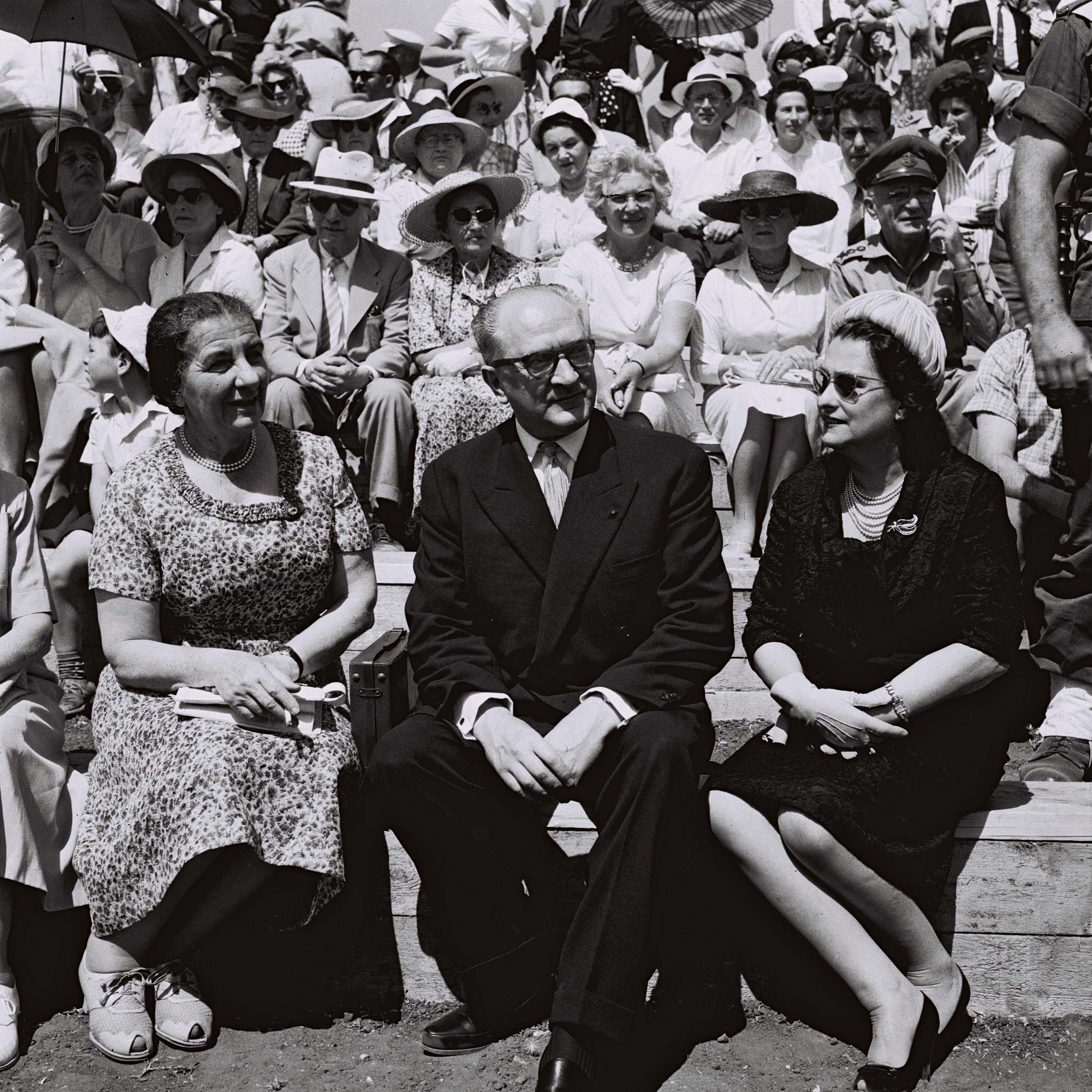 Guy Mollet, former PM of France, his wife, and Golda Meir, watching Israel's Independence Day Parade in Tel Aviv, May 13, 1959